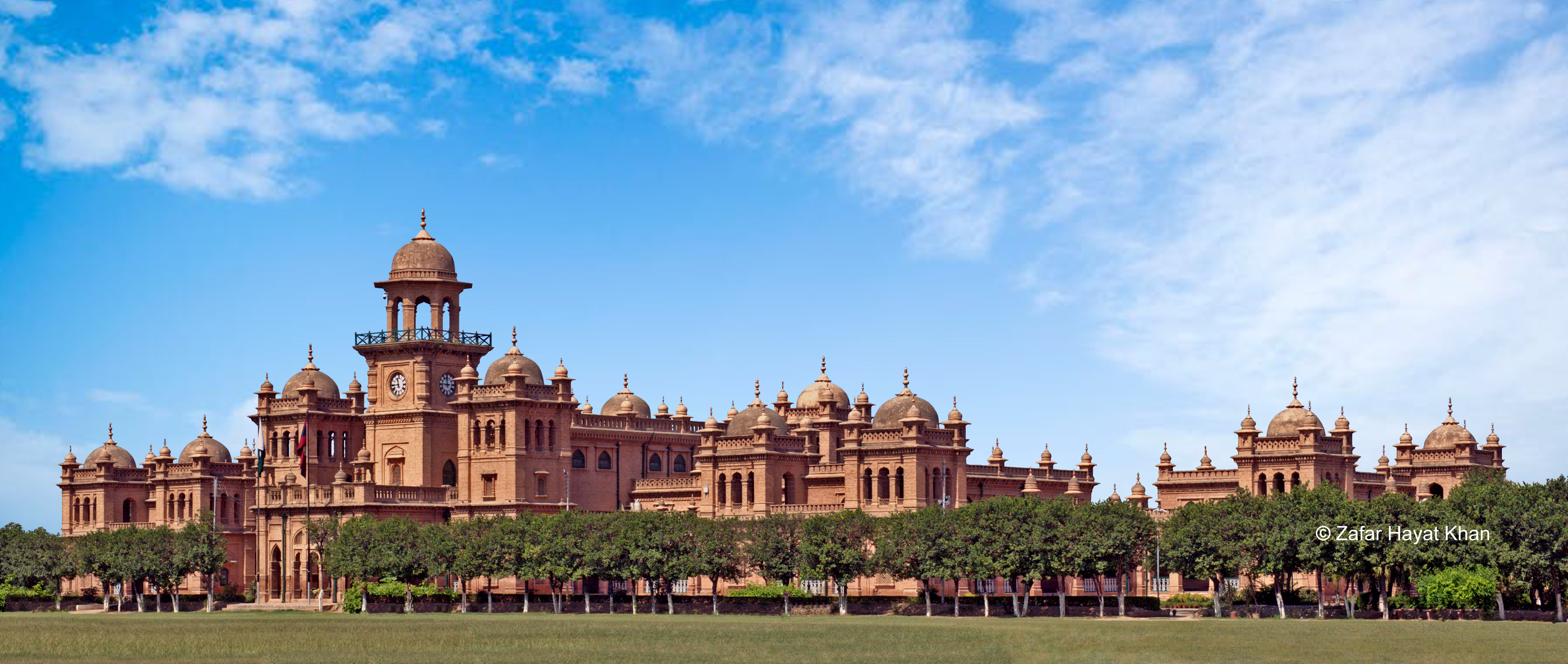 Islamia College Peshawar (Public Sector University), Khyber Pakhtunkhwa, Pakistan